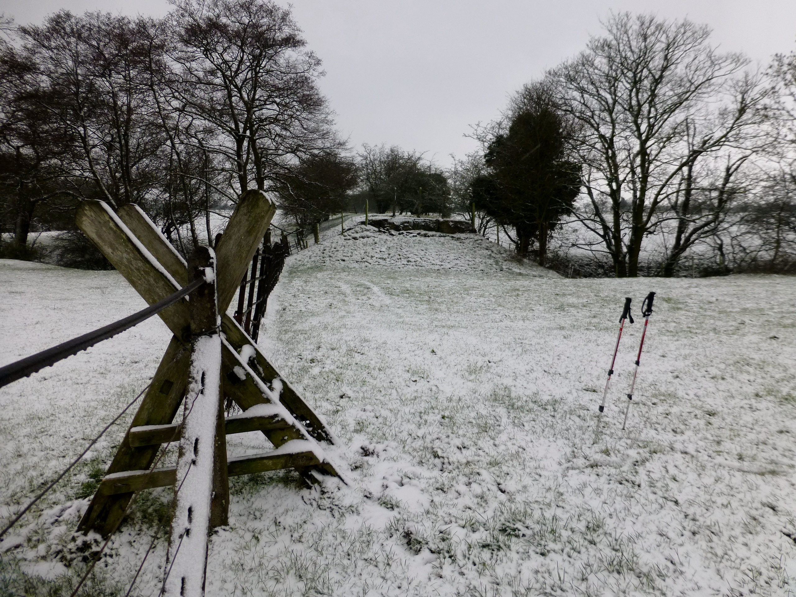 Looking north west along the line of the dismantled Whittingham Hospital Railway. I got here by walking along the footpath from the south-west. Normally the ground is rather waterlogged so I was pleased that it was frozen most of the way.